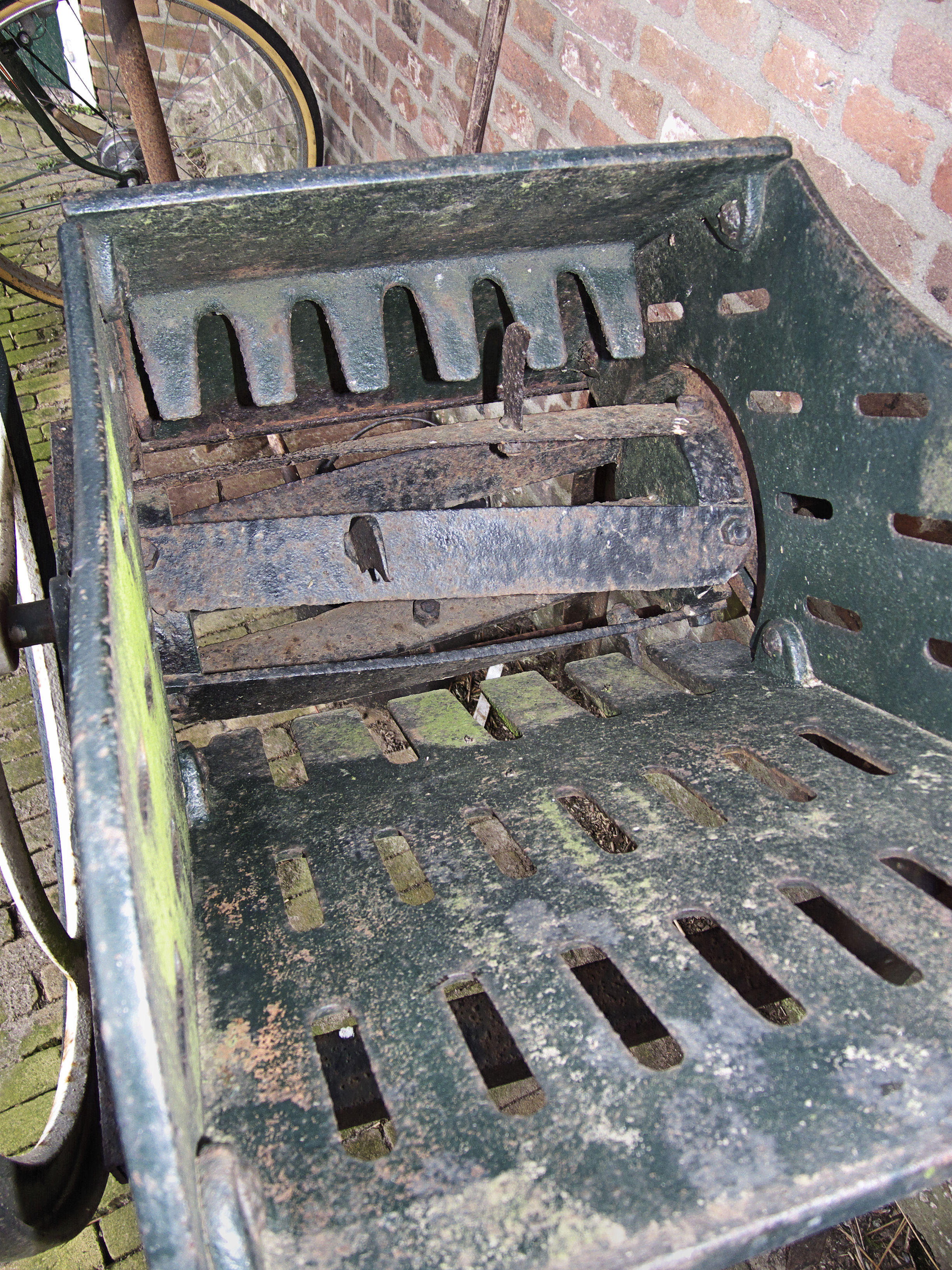 Fodder beet cutter